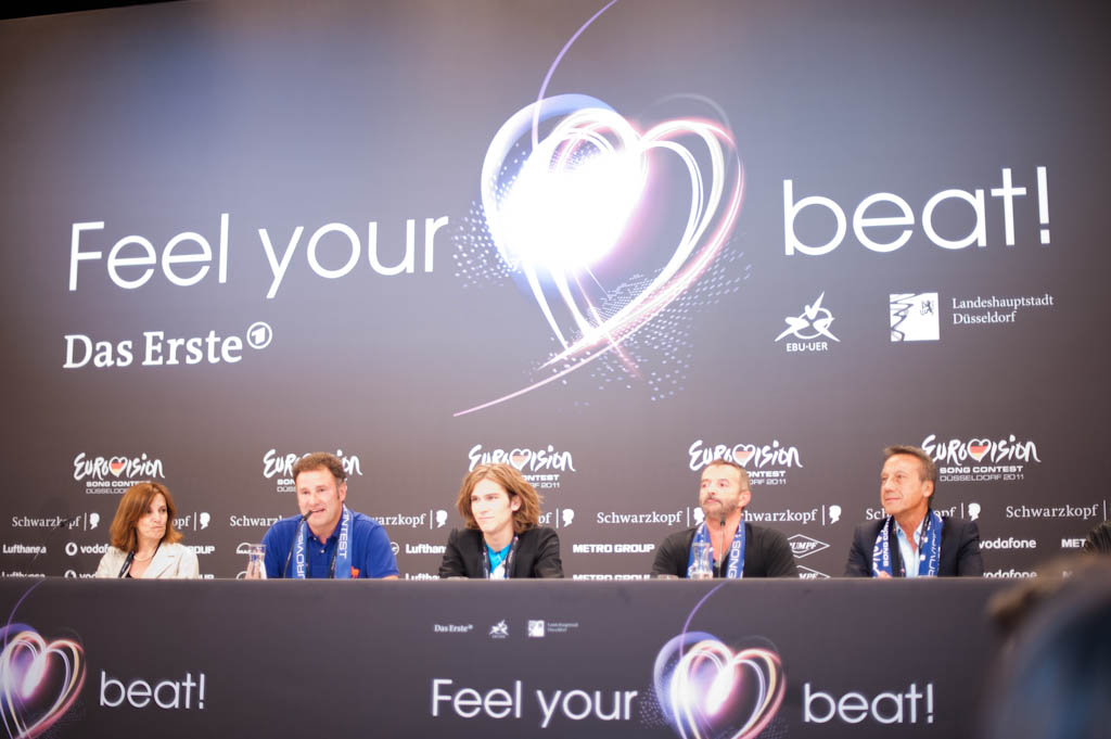 Press conference of Amaury Vassili, French representative at the Eurovision Song Contest 2011.